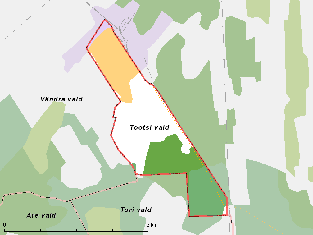 Map of municipality in Estonia